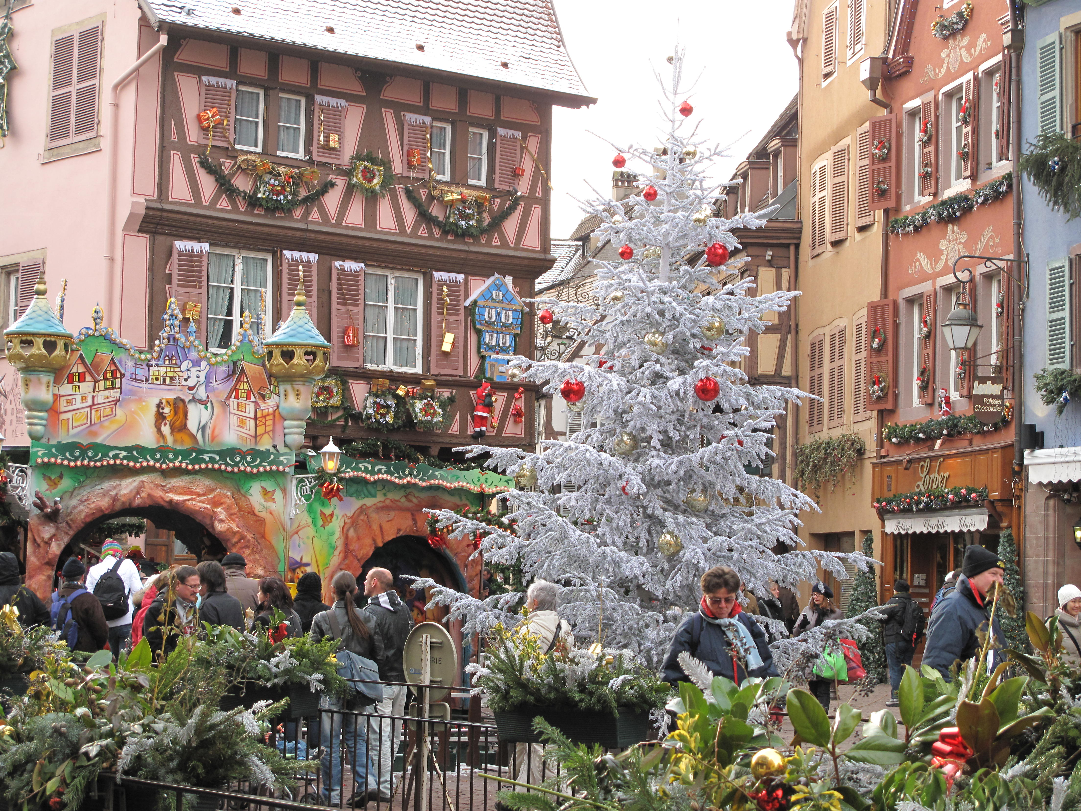 Christmas tree in the Christmas market of the place de l'ancienne douane (=square of the forme customs) in Colmar, France.